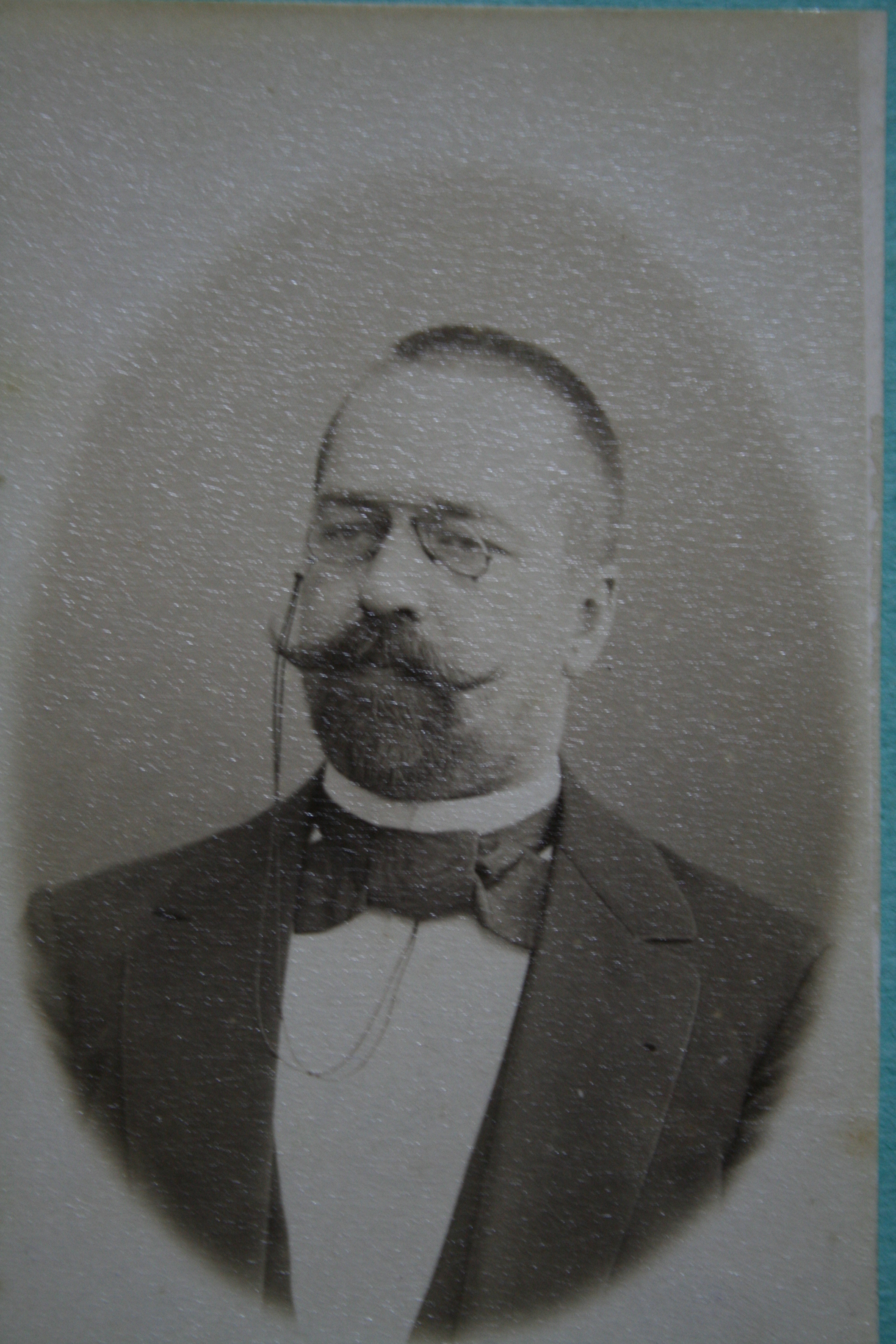 Ber portrait